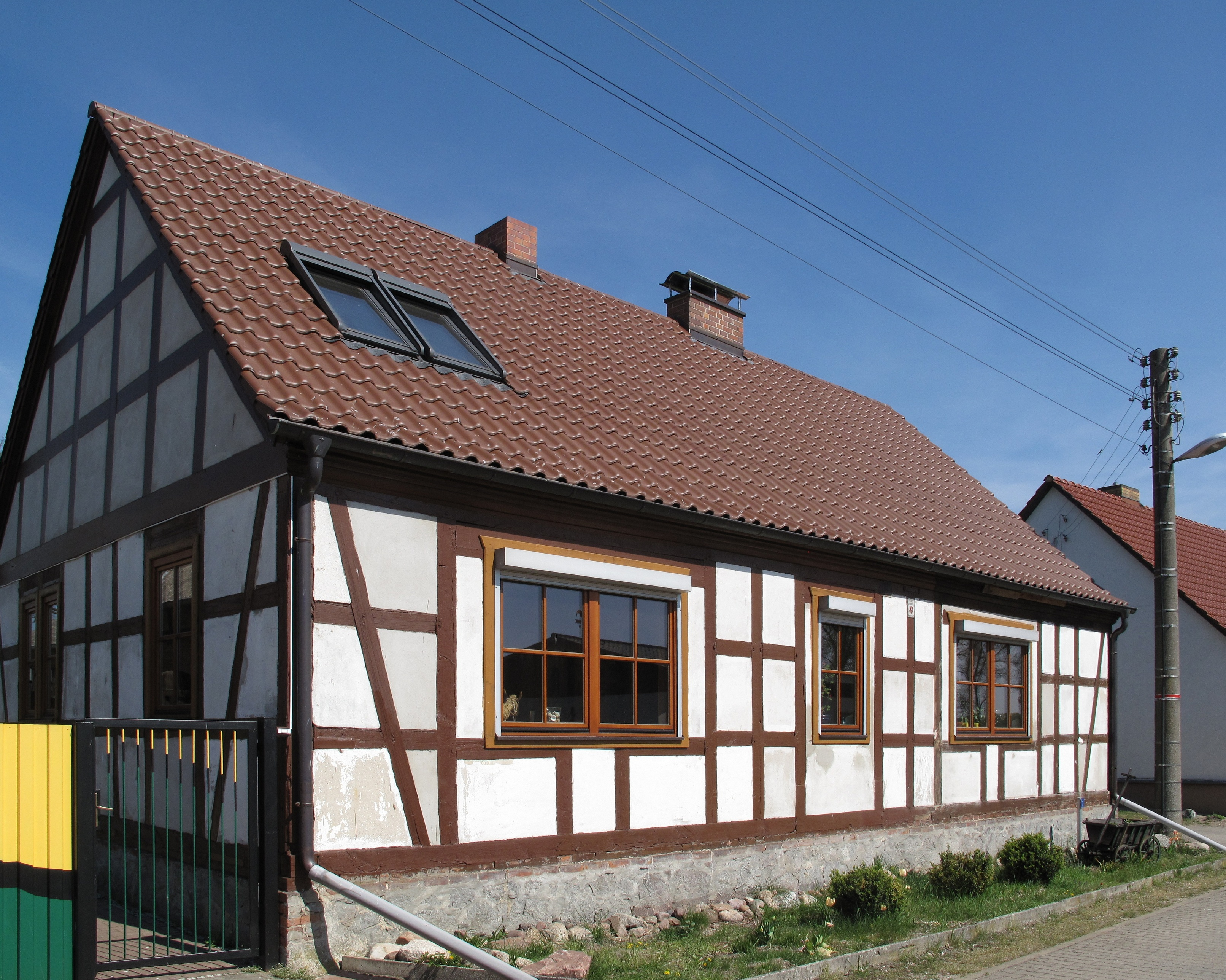 Historical Kietz in Altfriedland. The village Altfriedland is a part of the municipality Neuhardenberg in the District Märkisch-Oderland, Brandenburg, Germany.